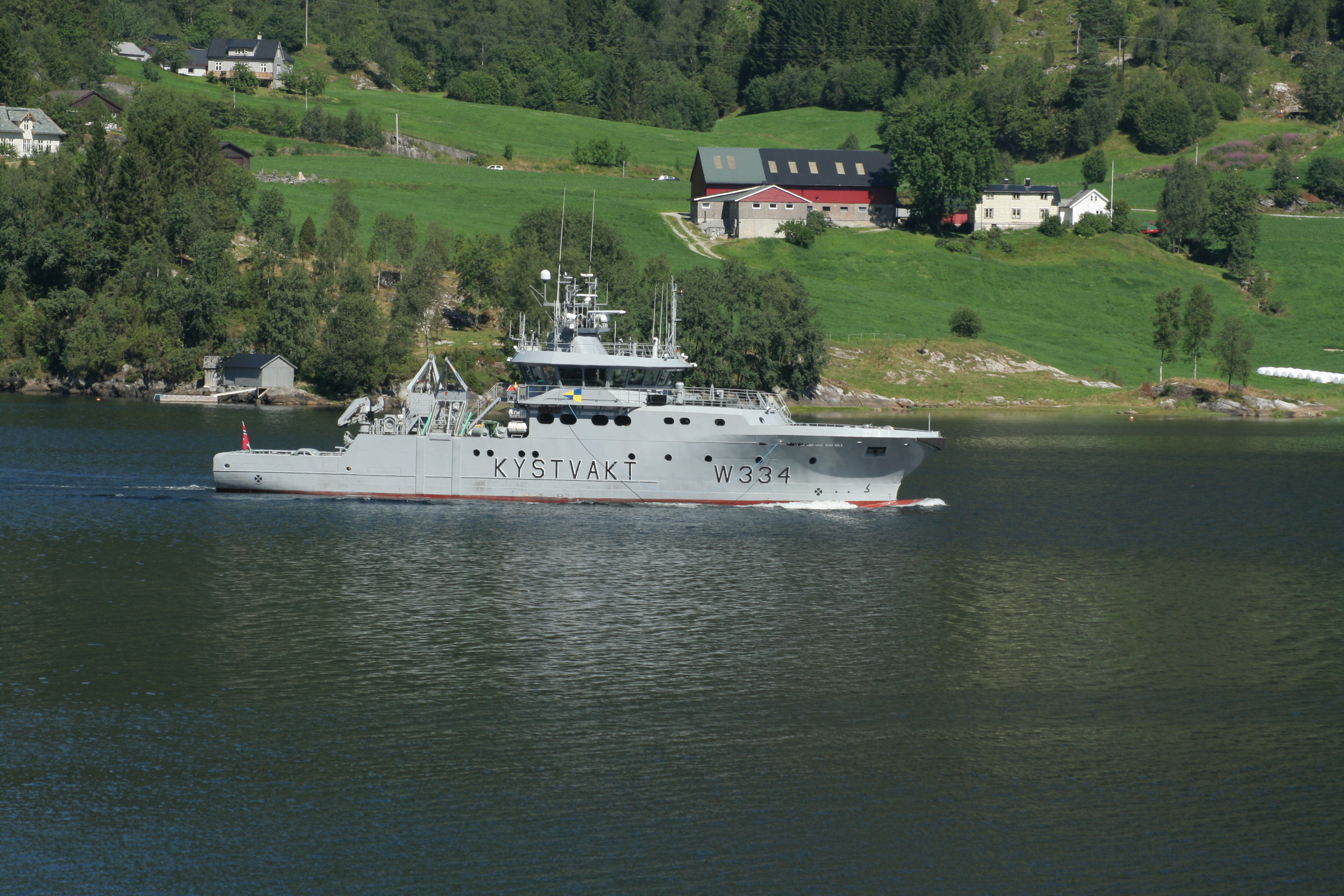 Norwegian Coastguard ship KV Tor, a Norne-class coastguard, in the inner Førdefjord, 25. July 2008.